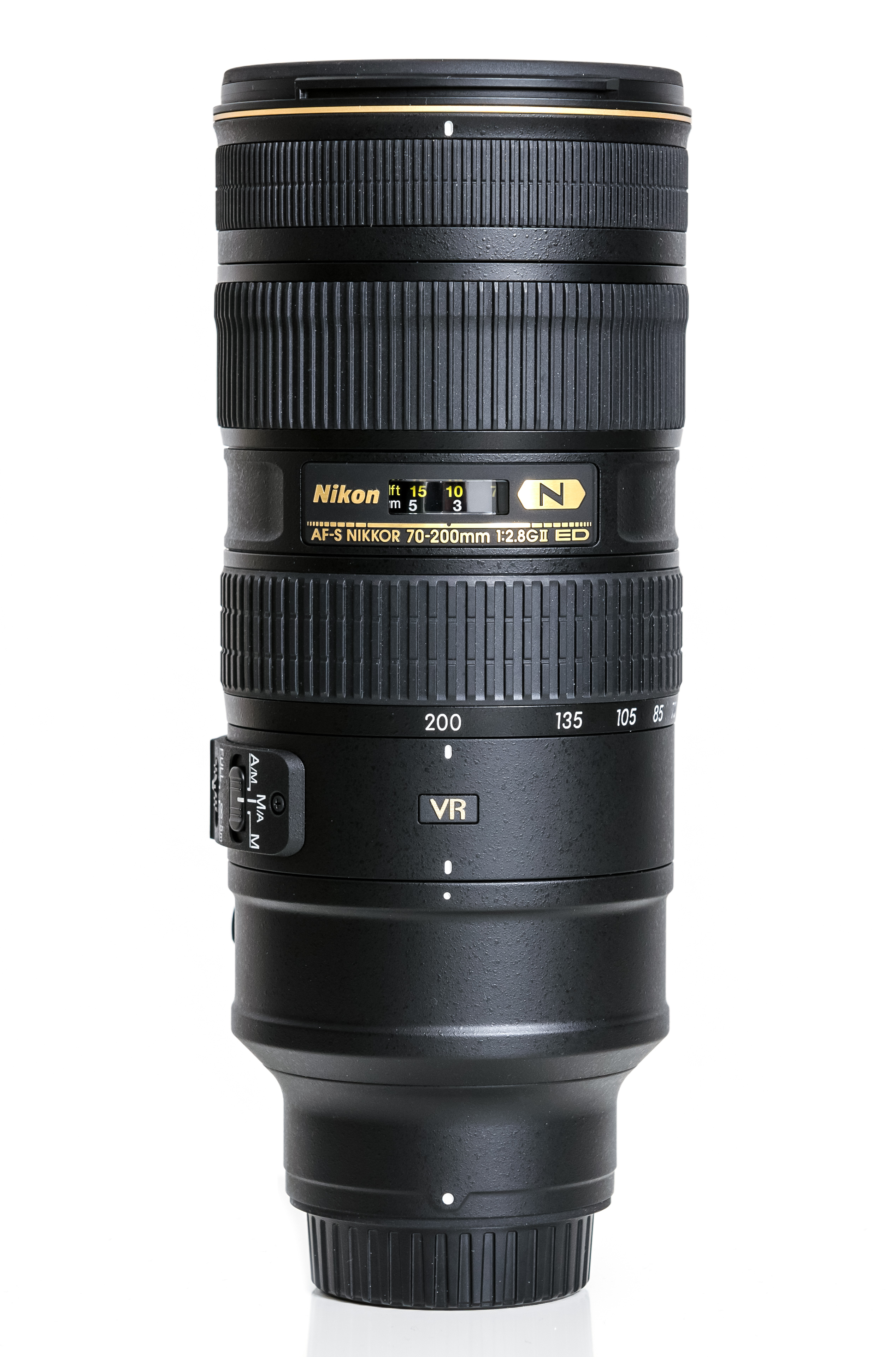 A Nikon AF-S Zoom-Nikkor 70-200/2.8G ED VR II lens